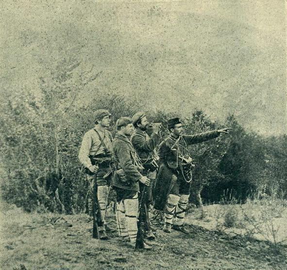 Cheta of IMARО voevoda Hristo Chernopeev